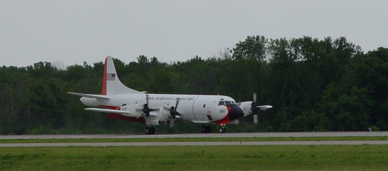 The NP-3D Orion (BuNo 154587) of VXS-1 of Naval Research Laboratory.